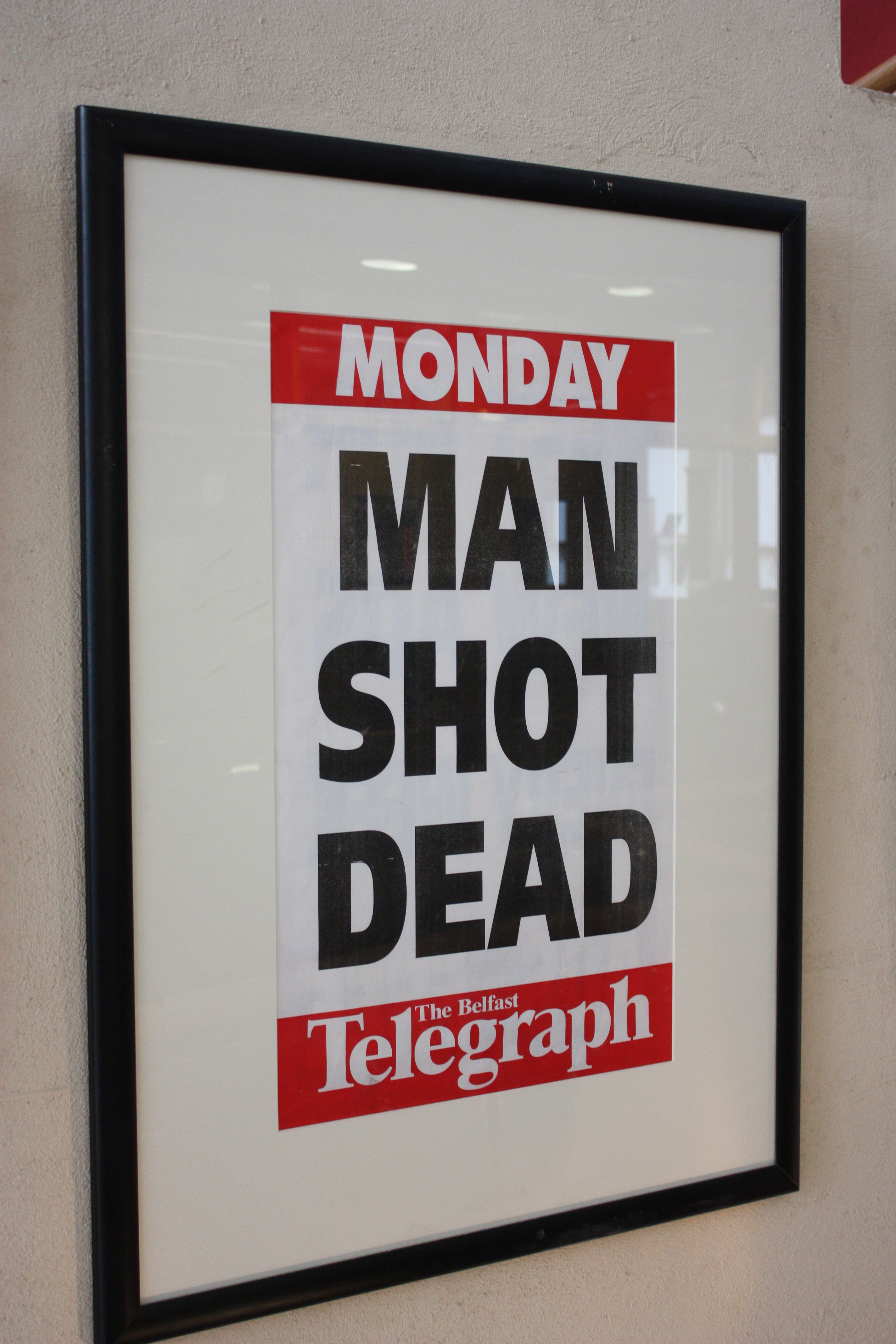 "Man Shot Dead" (Belfast Telegraph, 2000), Troubled Images Exhibition, Linen Hall Library, Donegall Square North, Belfast, Northern Ireland, August 2010